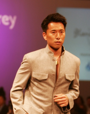 James Kyson Lee at Audrey Magazine Fashion Fusion in 2007.